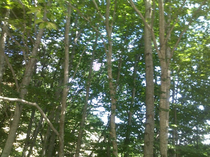 Beech forest near Kleisoura, Kastoria peripheral unit, Greece.